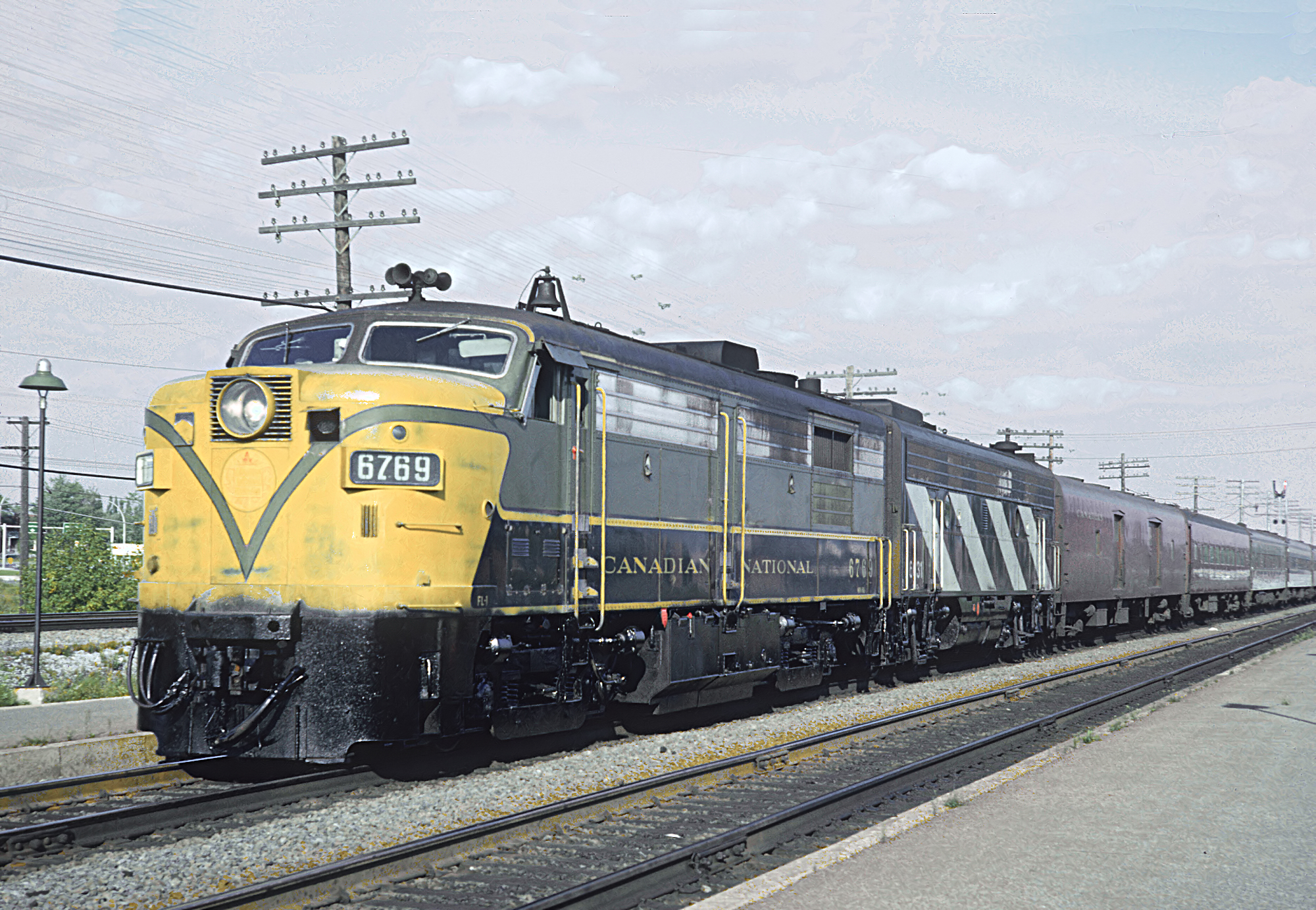 The train had 5 parlor cars. A Roger Puta Photograph